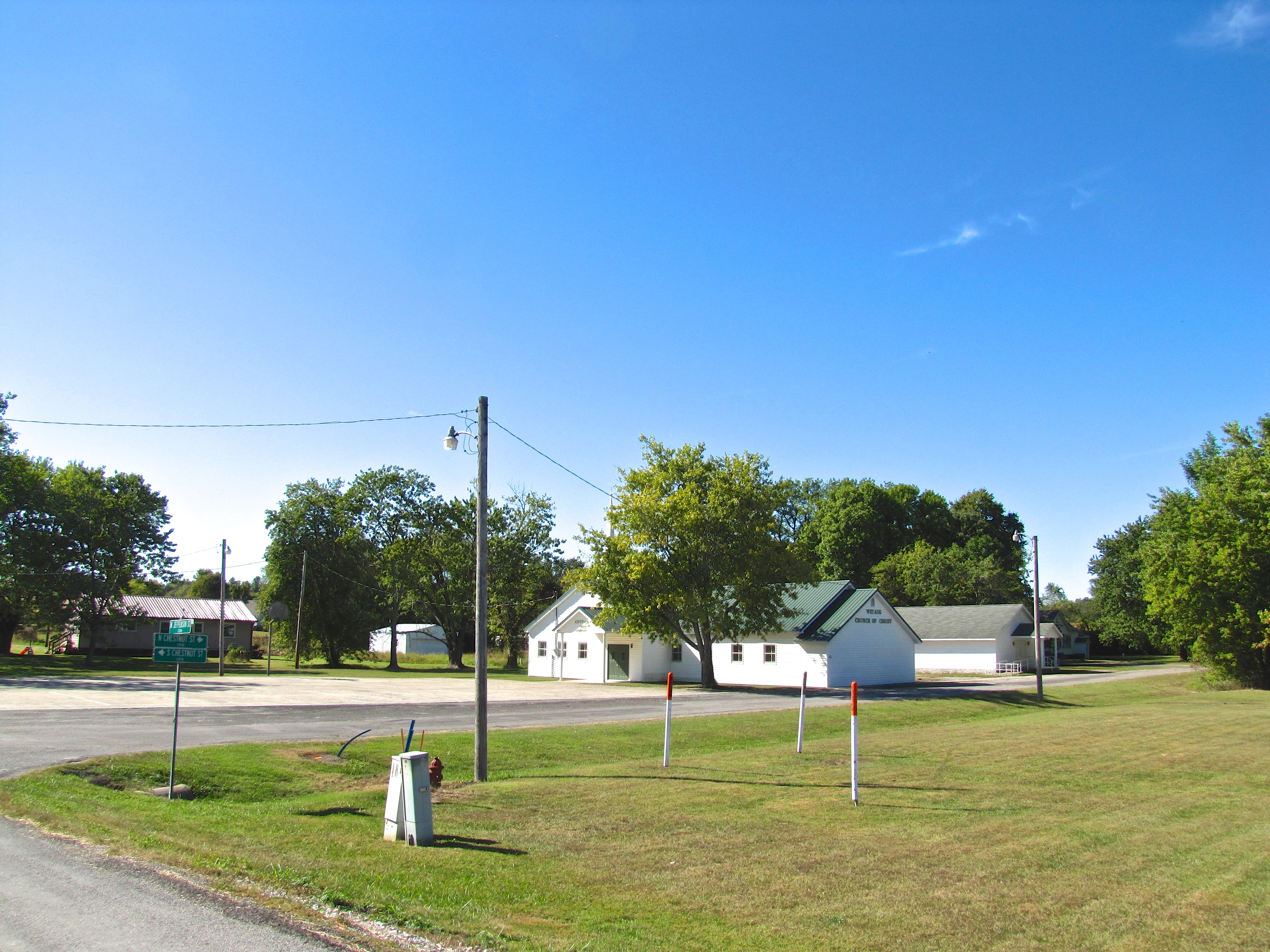 Wetaug, Illinois, United States, viewed from Jefferson Street. The Wetaug Church of Christ is right-of-center.